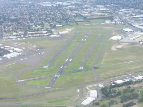 Author Chris Parkes